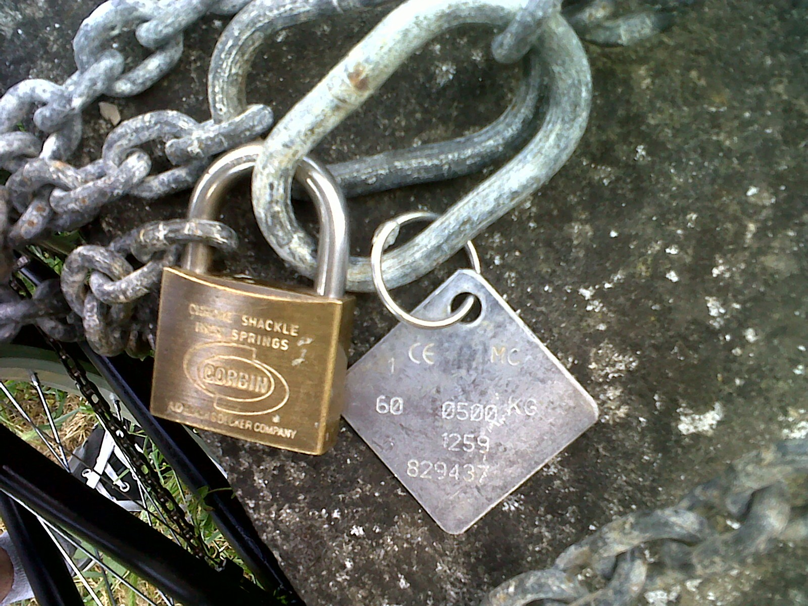 Link chain small and large, certified